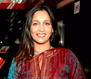 Ashwini Bhave at the Premiere Of Marathi Movie 'Zhak Marli Bayko Keli'